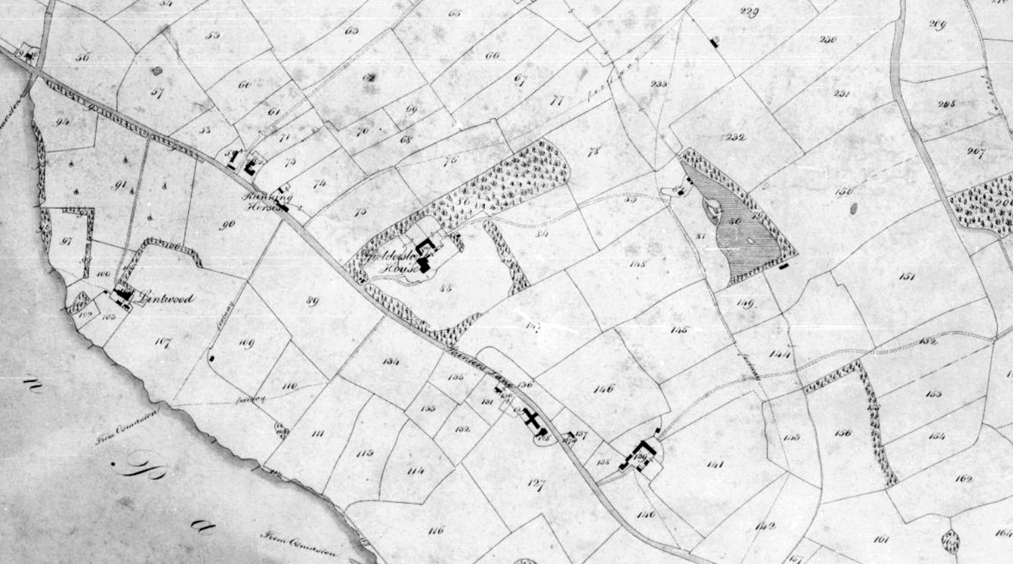 Tithe map of Yeldersley Hall 1841